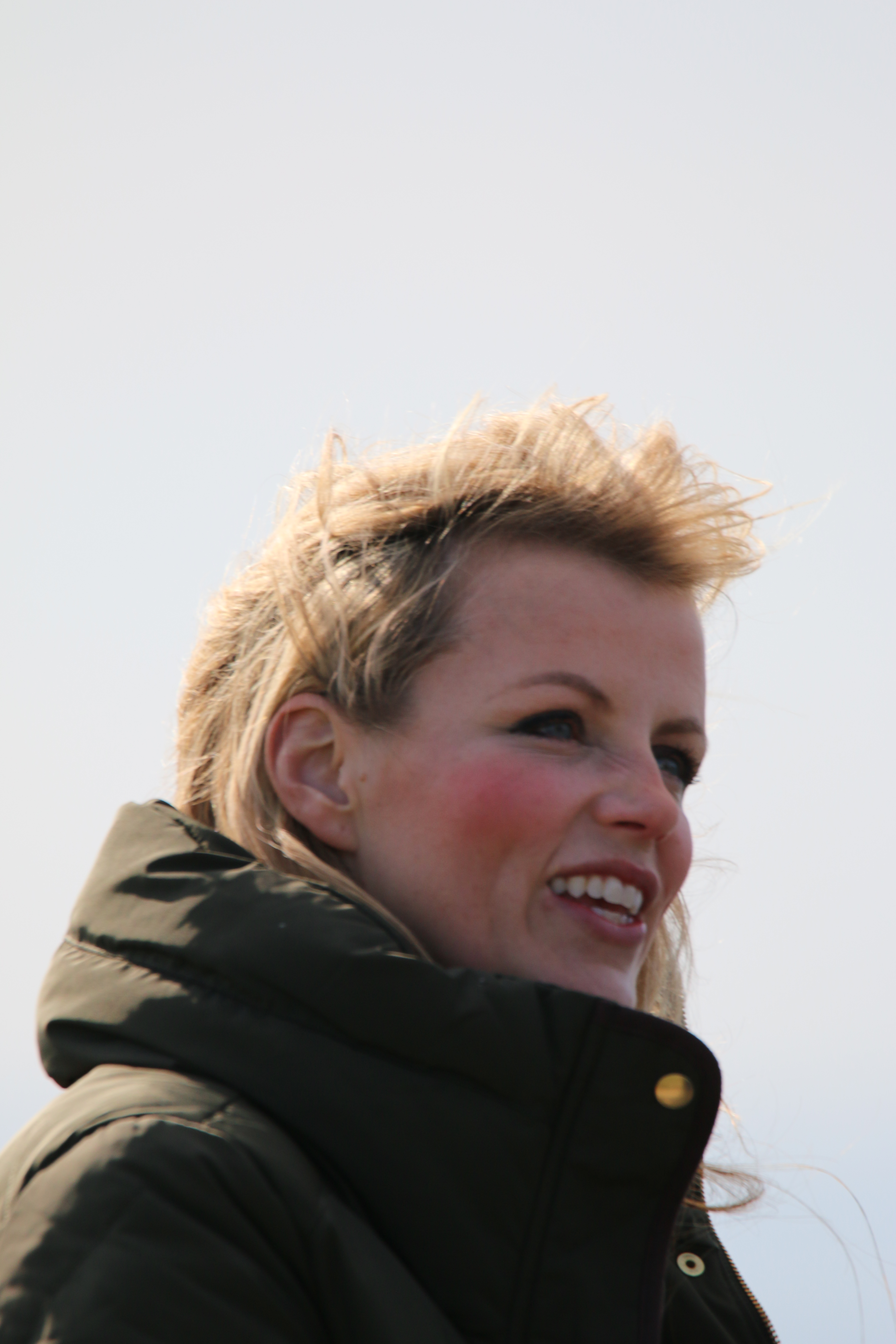 Ellie Harrison (countryfile) at RSPB Bempton on 04/06/2015